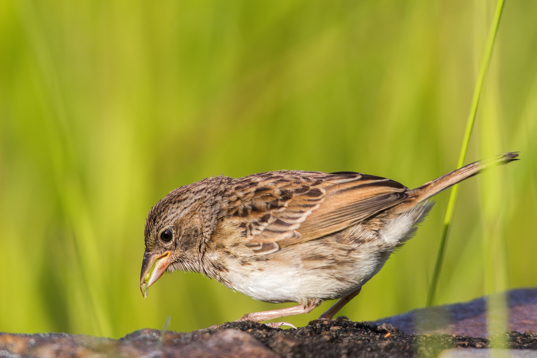 500px provided description: Rufous-collared Sparrow Correporsuelo (Zonotrichia capensis roraimae) (immature) [#Birds ,#Venezuela ,#Aves ,#Rufous-collared Sparrow ,#Gran Sabana ,#Zonotrichia capensis ,#Parque Nacional Canaima ,#Canaima national park ,#Correporsuelo]